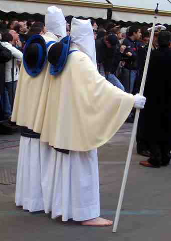 Desciption: Barfüßige Perdoni (Taranto) Photographer: --Asia Date: 15.4.2006